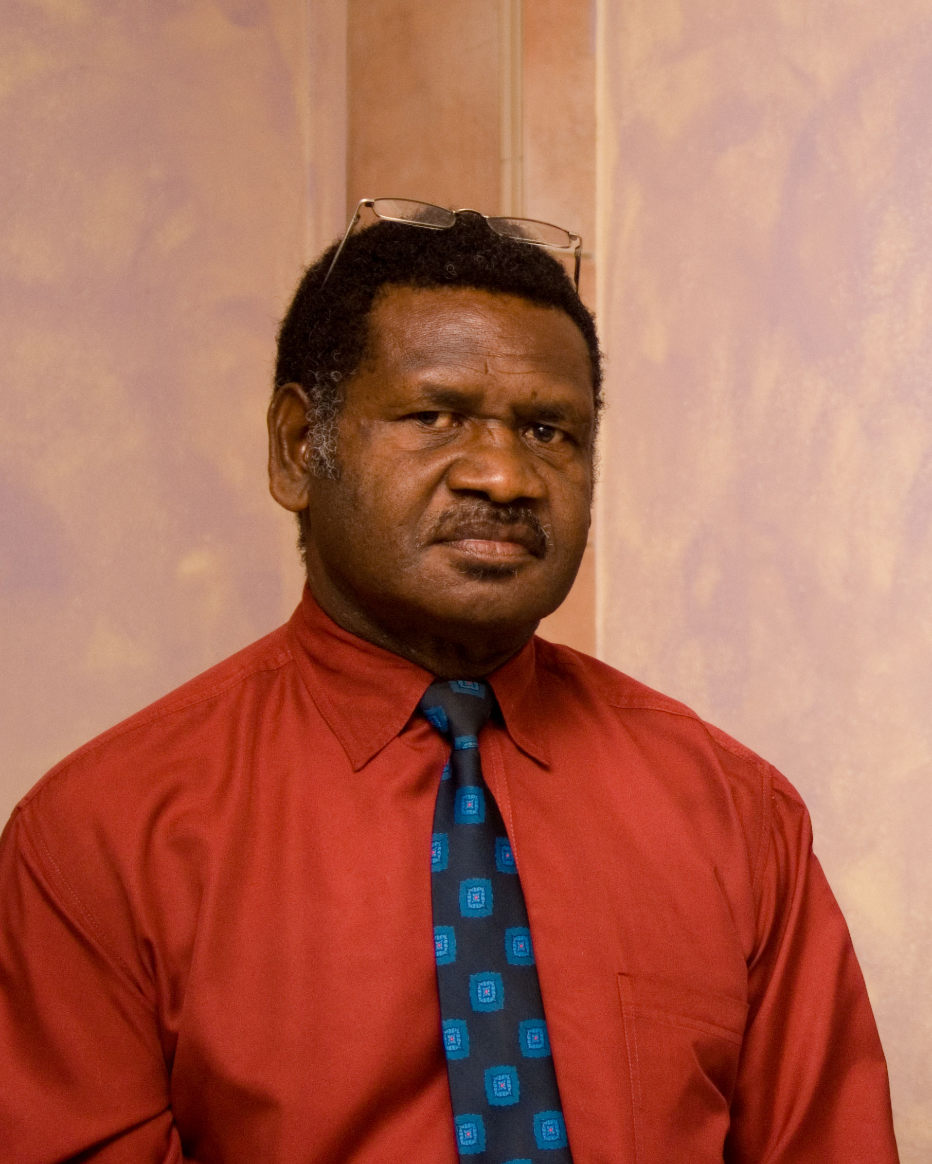 An informal portrait of Prime Minister of Vanuatu, Ham Lini Vanuaroroa